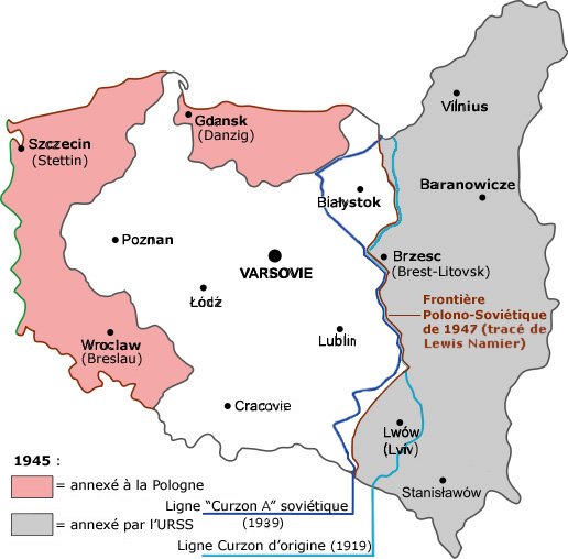 Map of the Curzon Line, rectified since tne Teheran Conference maps